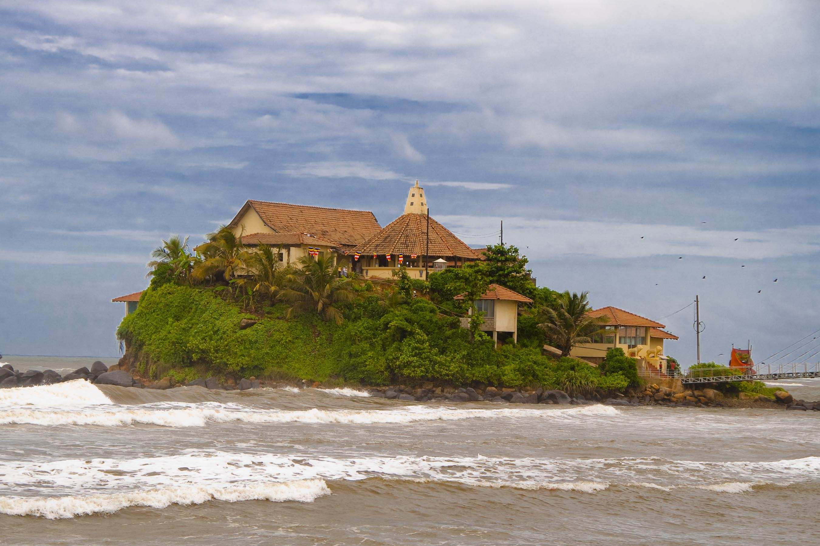 Islet in Matara, Sri Lanka